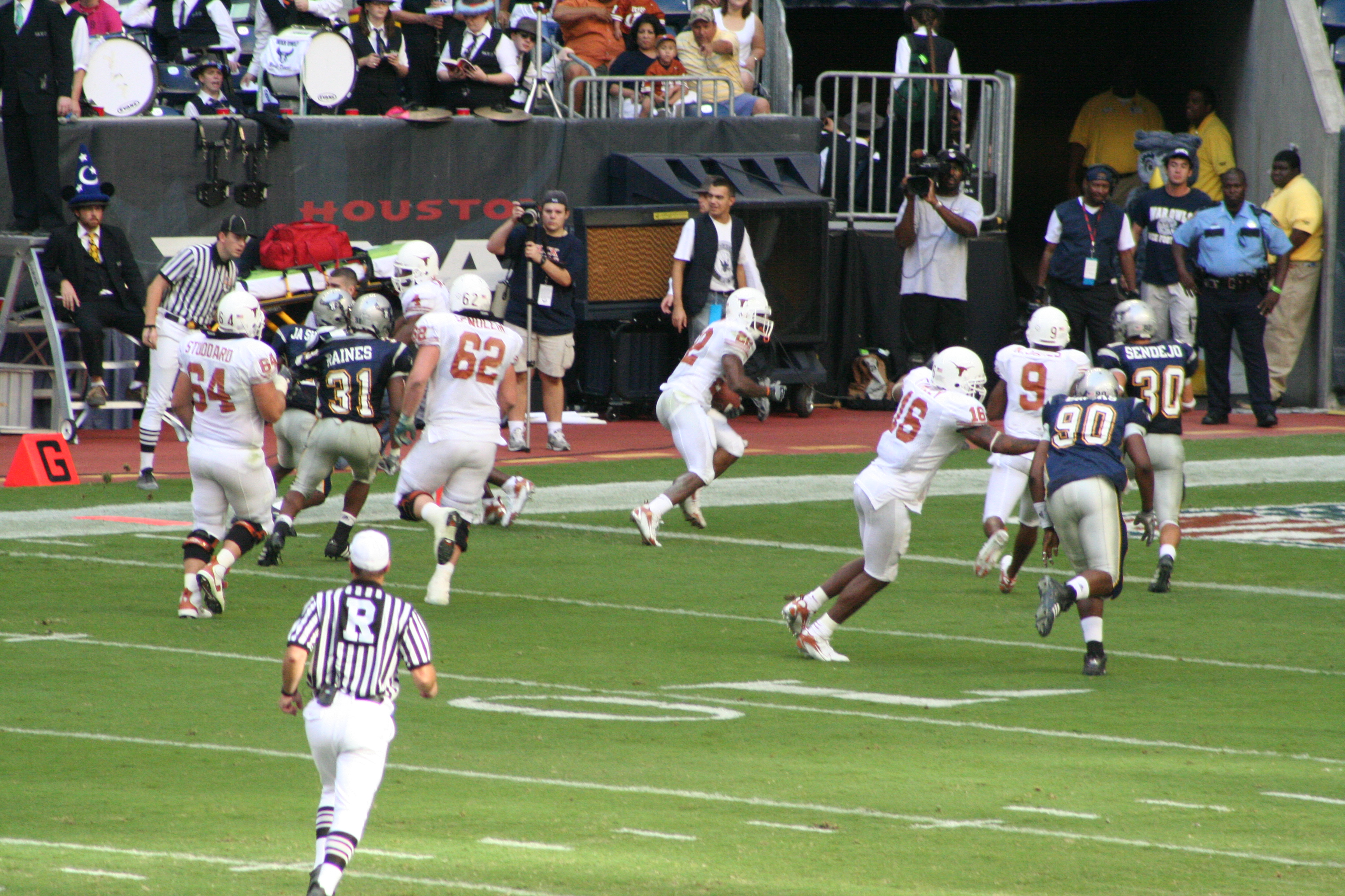 Selvin Young scores a touchdown during a College football game - The University of Texas Longhorns vs the Rice University Owls, 16 September 2006.